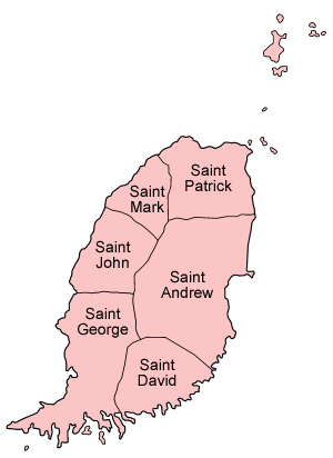 Map of the parishes of Grenada, named in English (local language). The individual maps are: Saint Andrew Saint David Saint George Saint John Saint Mark Saint Patrick